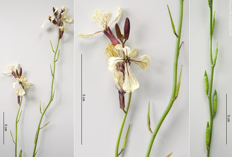 Inflorescence and young fruits of rucola a.k.a. garden rocket (Eruca vesicaria (syn. E. sativa)